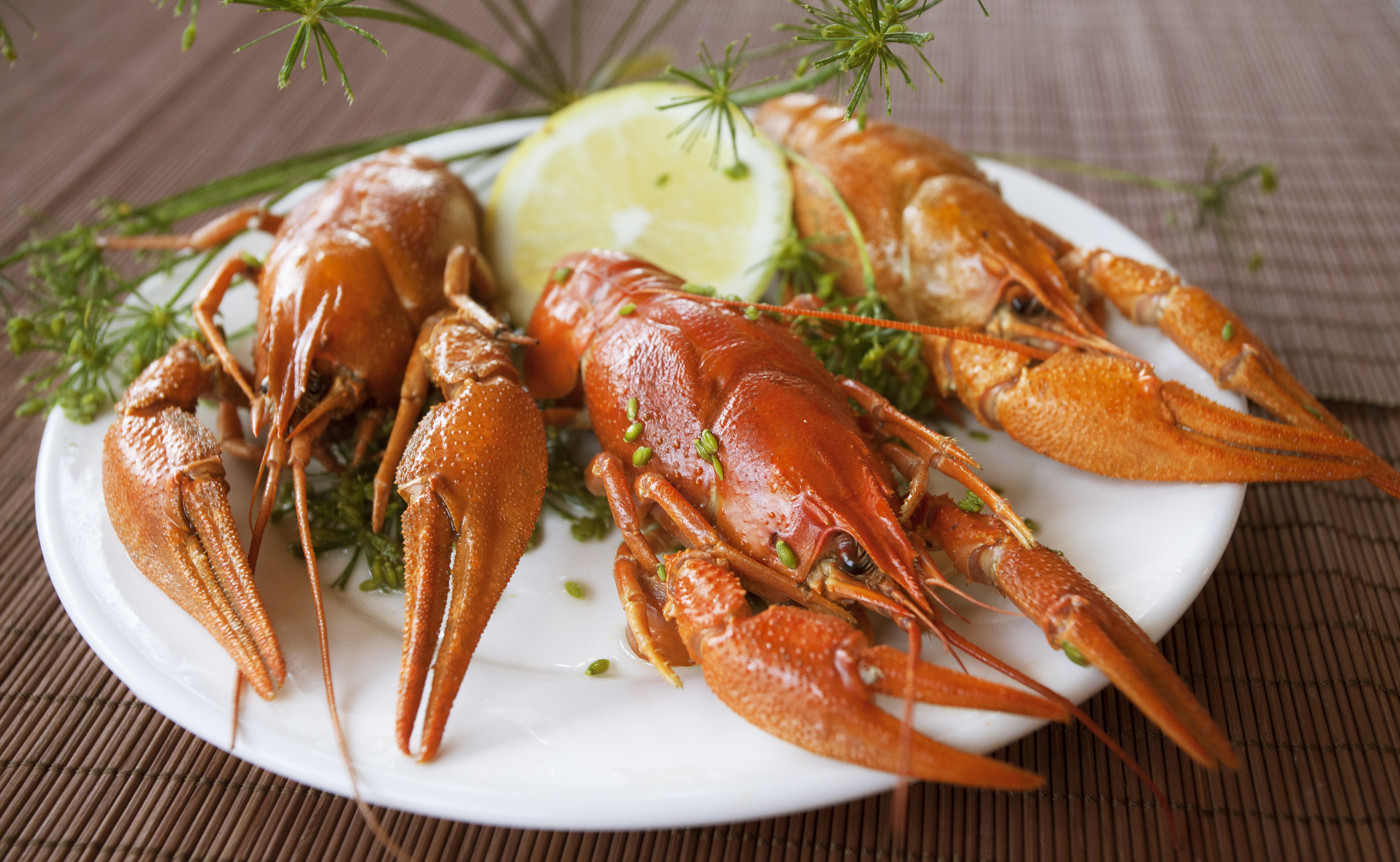 crayfish